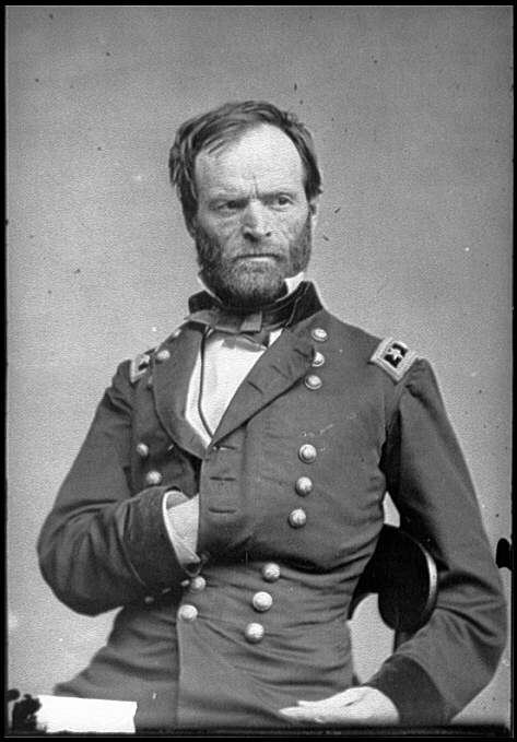 Photo portrait of William Tecumseh Sherman